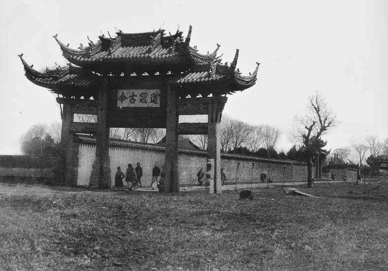 an old picture of Suzhou Fuxue